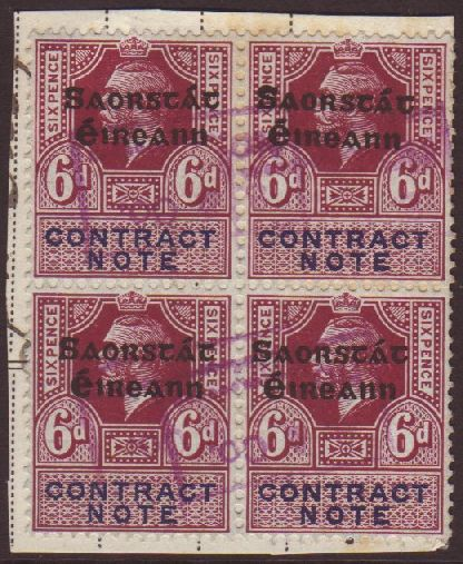 Block of four 1922 6d revenue stamps overprinted Saorstat Eireann on KGV Revenue, with 'Contract Note' in blue printing in lower tablet area